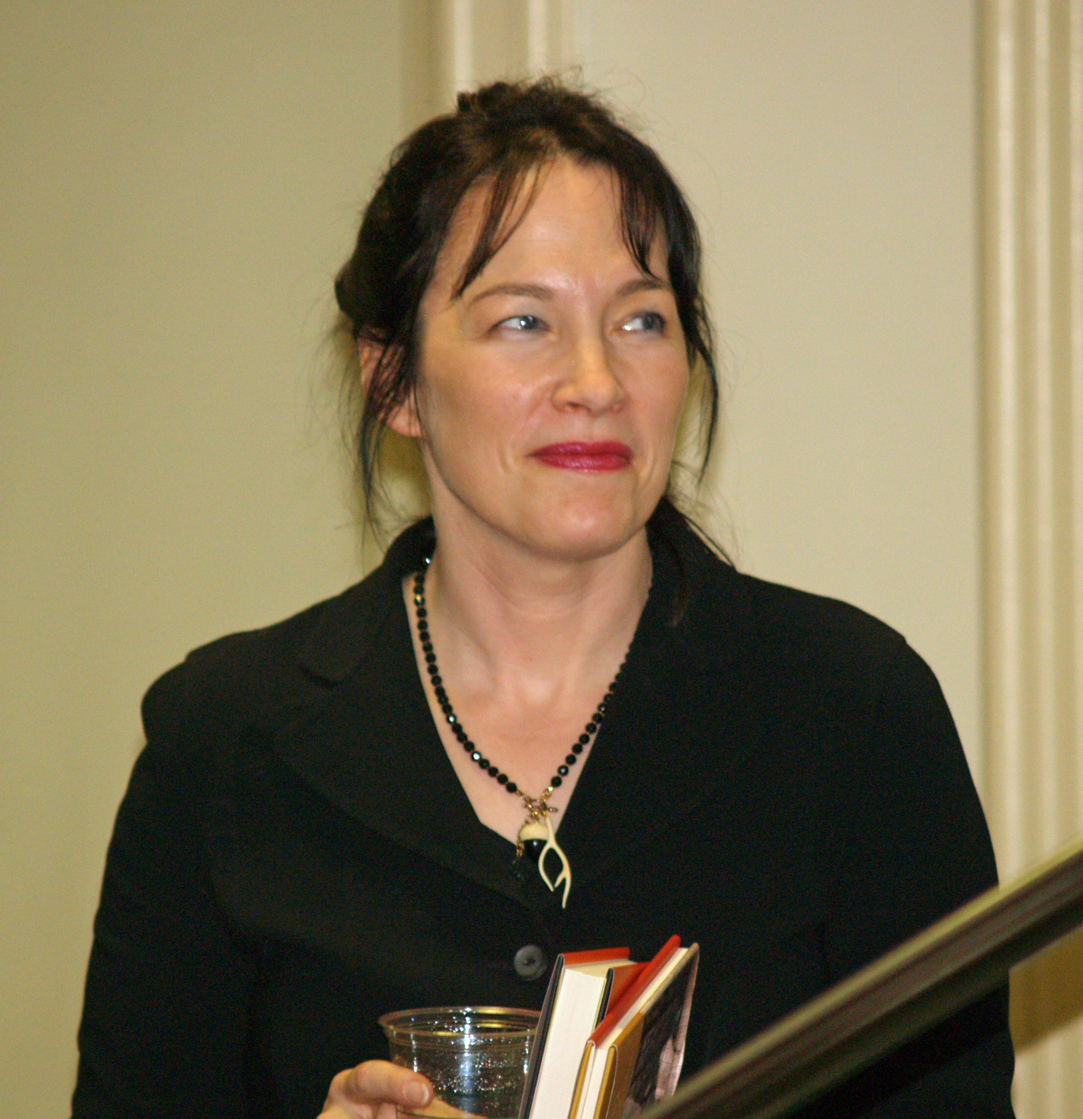 Alice Sebold by David Shankbone